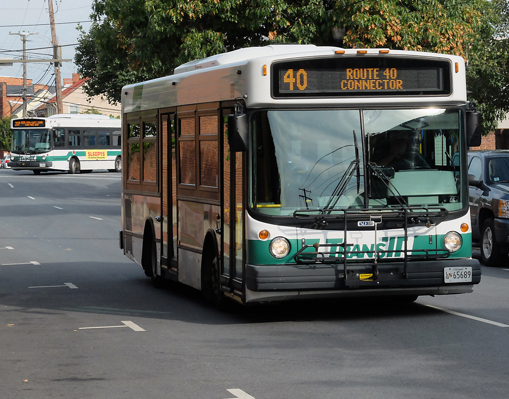 A Thomas SLF-230 heading down East Patrick Street outbound for the West End.